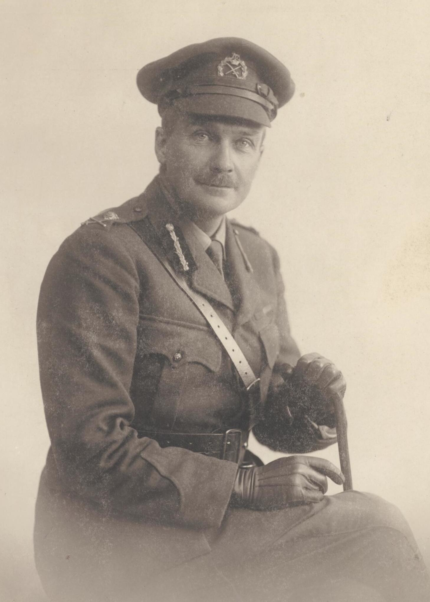 Australian military officer Neville Howse in his uniform